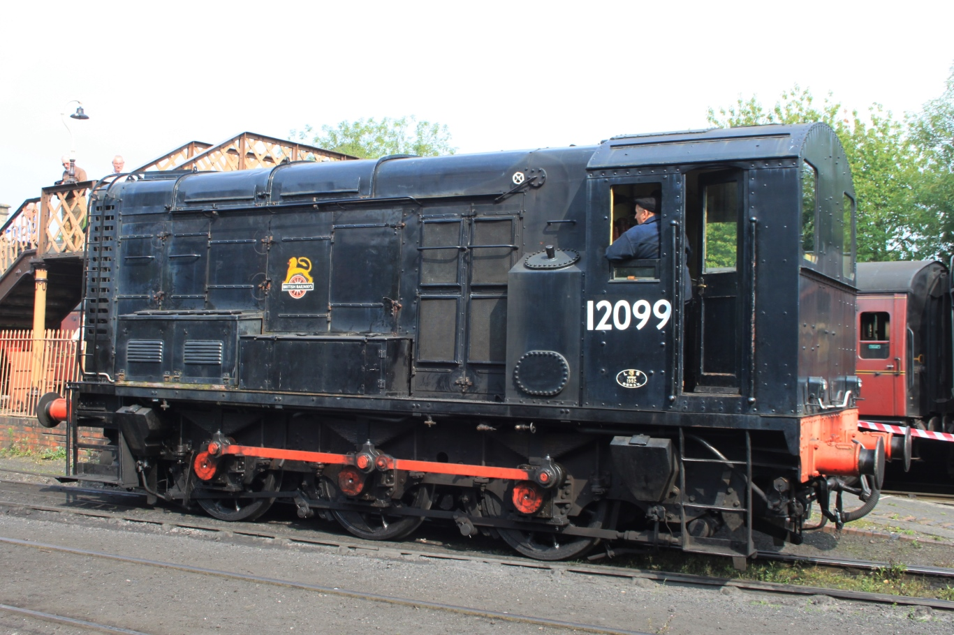 Preserved Class 11 shunter 12099 working as the shed pilot at Bridgnorth on the Severn Valley Railway